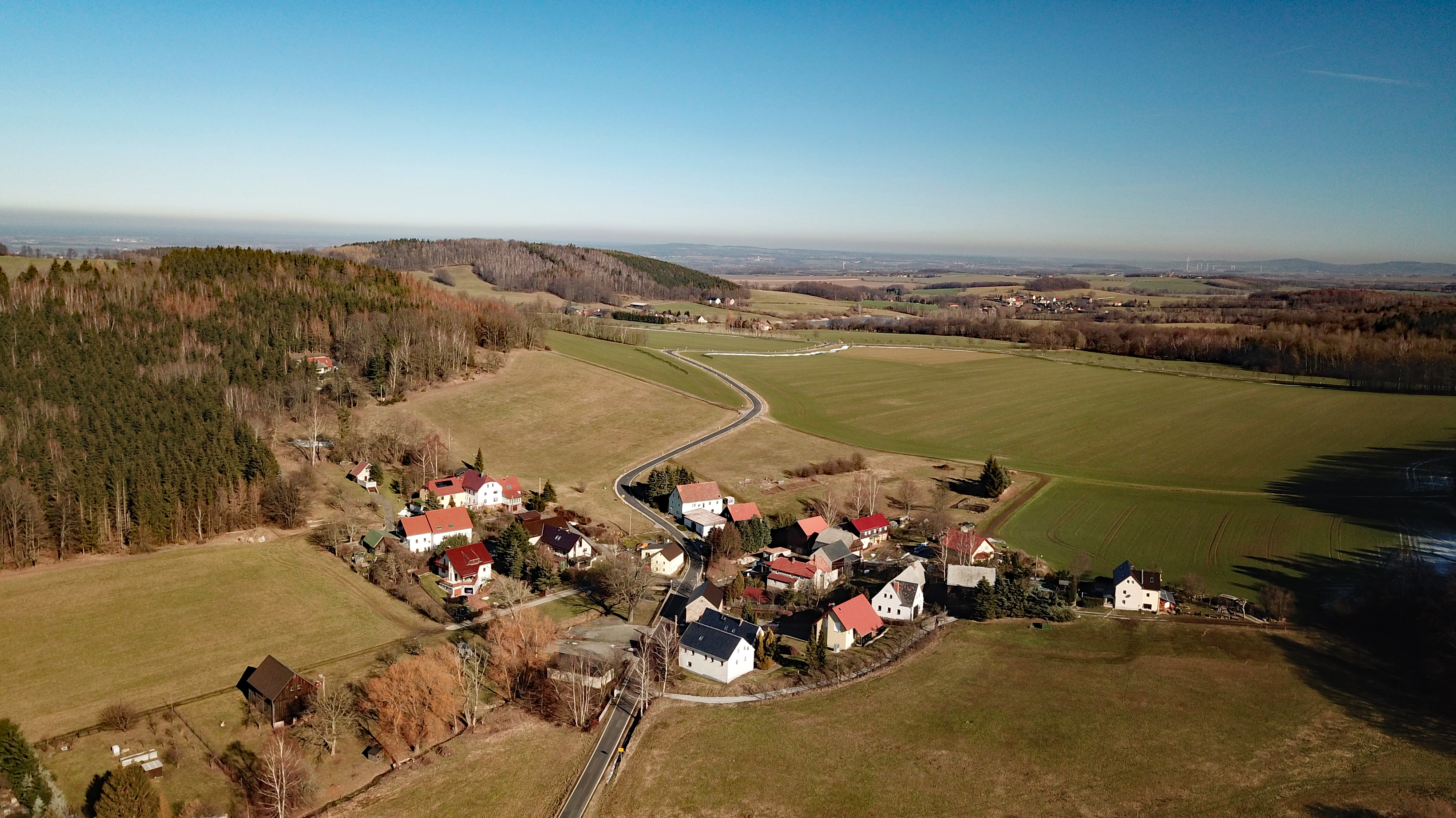 Großkunitz, Kubschütz, Saxony, Germany Hornjoserbsce: Powětrowy wobraz Chójnicy (gmejna Kubšicy)